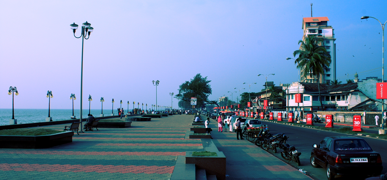 a view of calicut beach from the southern end.